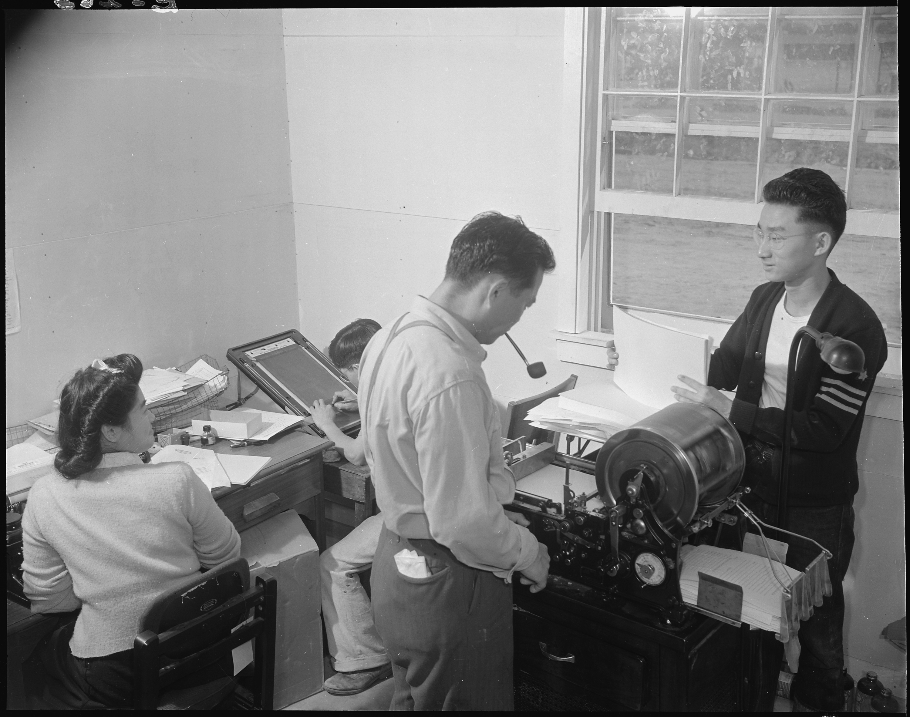 Scope and content: The full caption for this photograph reads: Jerome Relocation Center, Denson, Arkansas. Rolling the presses as the Jerome Communique, project mimeographed newspaper, prepares to hit the streets. Left to right: Eunice Yakota, Stencil Cutter; Kiyomi Nakamura, Mimeoscope operator; Tsugio Makagama, Mimeo Chief; Ray Kawamoto, Communique Artist & Mimeo Chief.